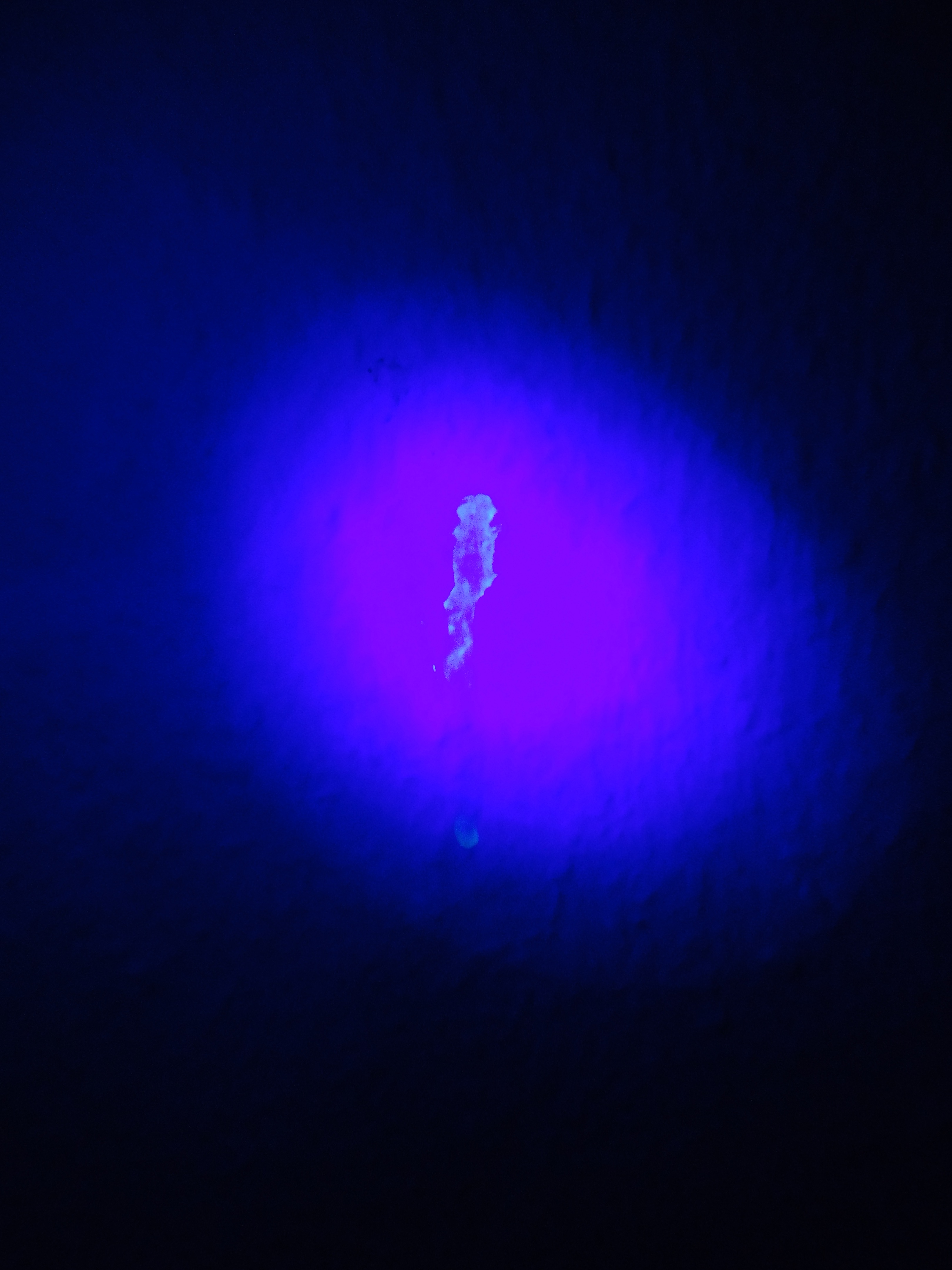 A dried drop of an unidentified liquid on a white wall under UV light (200-400nm).